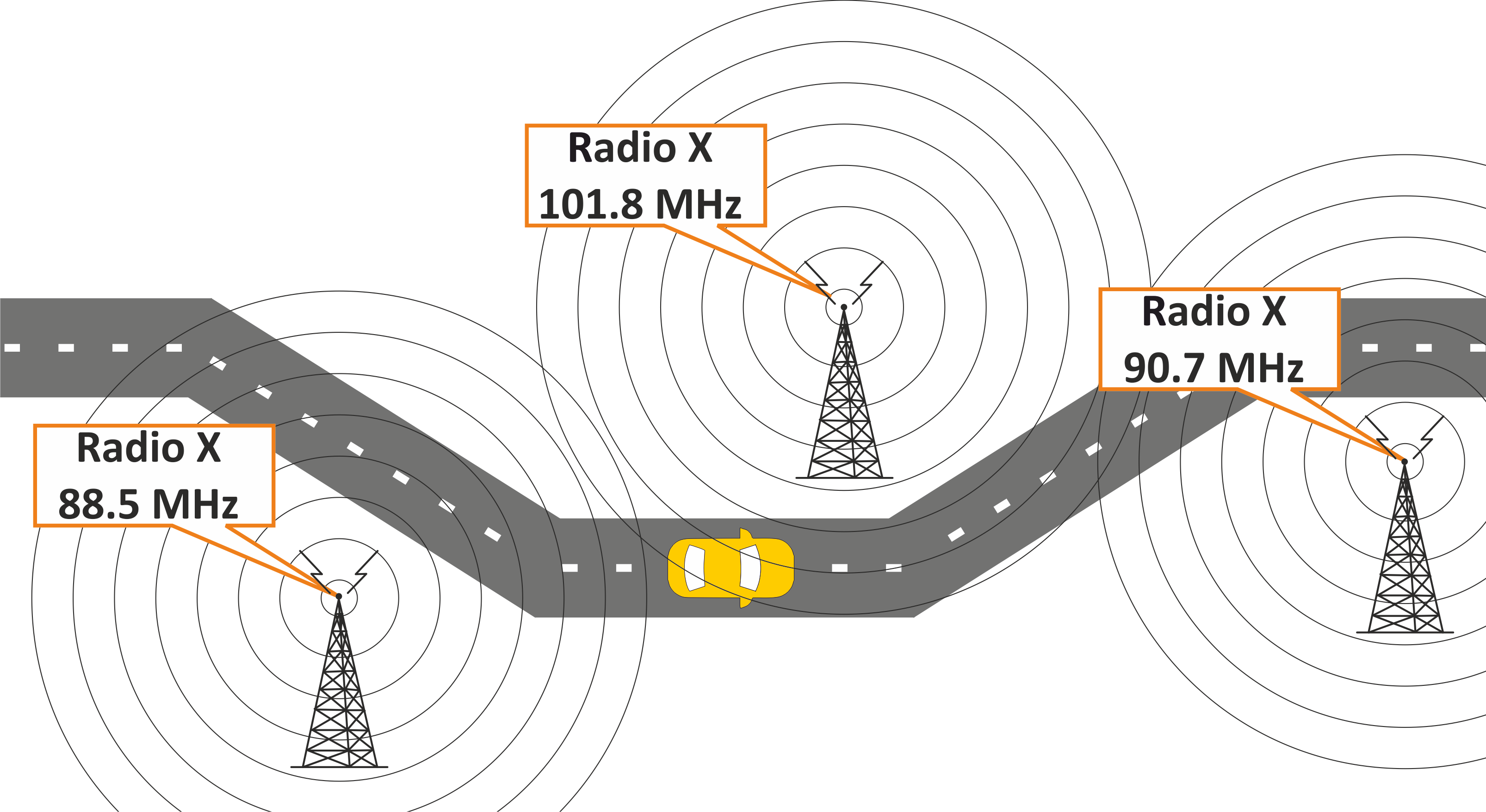 Explain how alternative frequency works to guide the receiver to move from one frequency to another, stronger and closer to receiving the same station